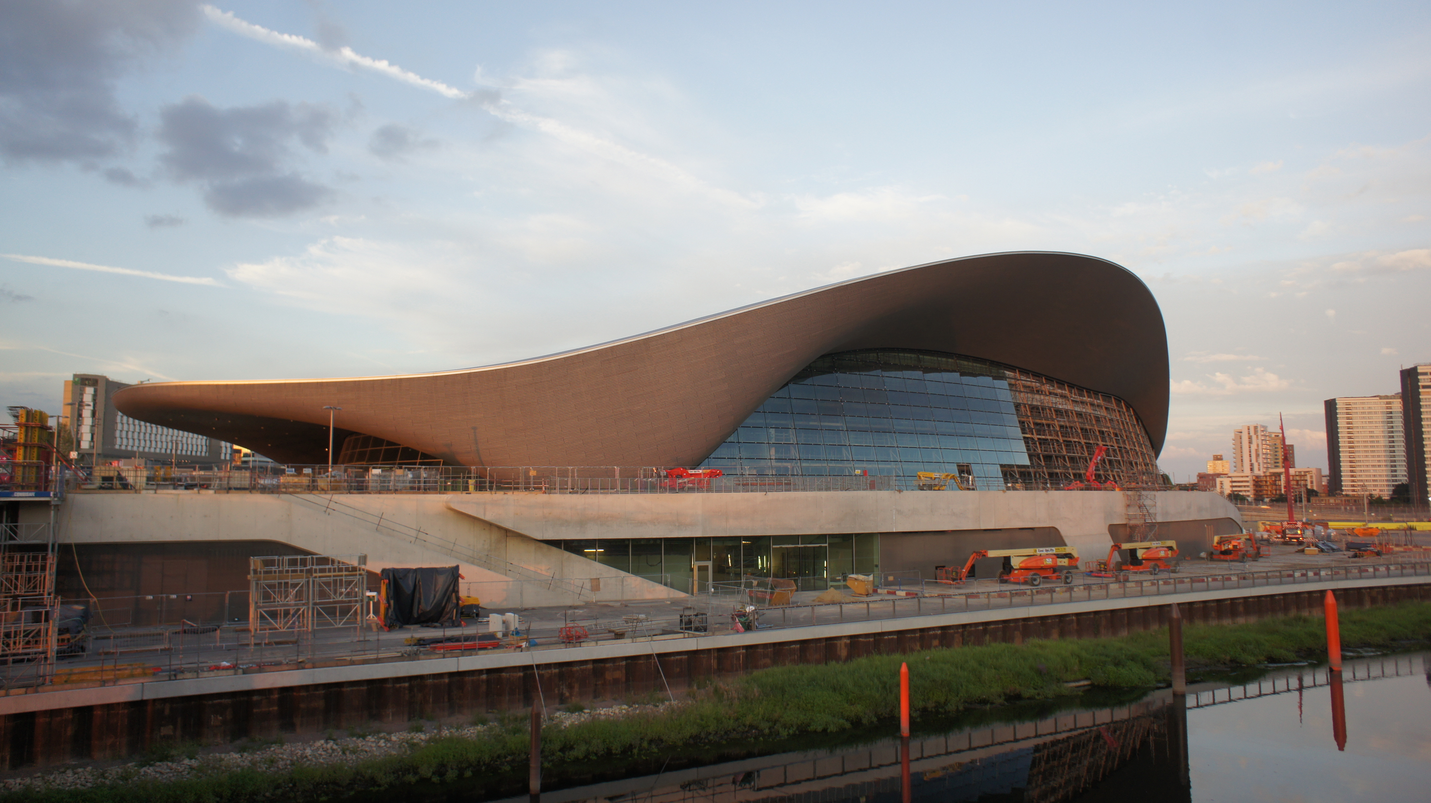 The Aquatics centre in its post Olympics look minus the wings.